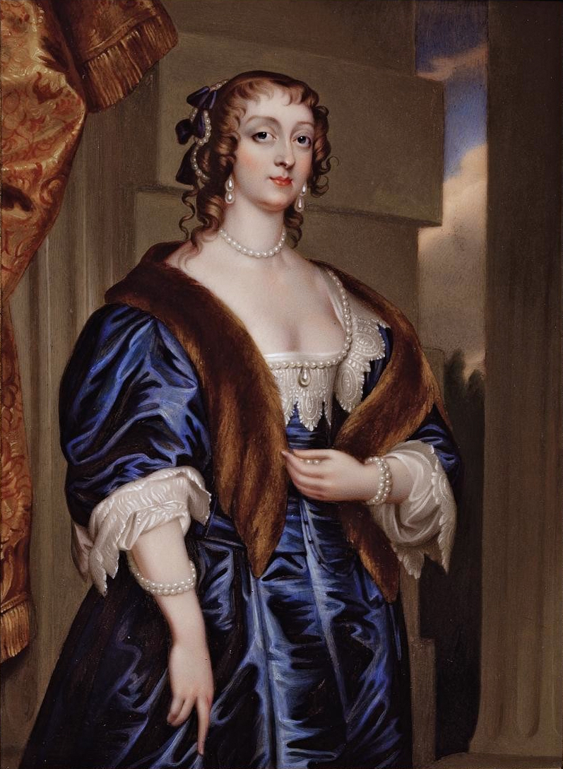 in blue silk décolleté dress with white lace collar and cuffs, fur stole, pearl bracelet, two strings of pearl necklaces, one with drop-pearl at corsage, drop-pearl earrings, further pearls worn with blue ribbon in upswept hair dressed in ringlets, in left hand and draped over right arm, standing in an interior with pillar, curtain and sky background